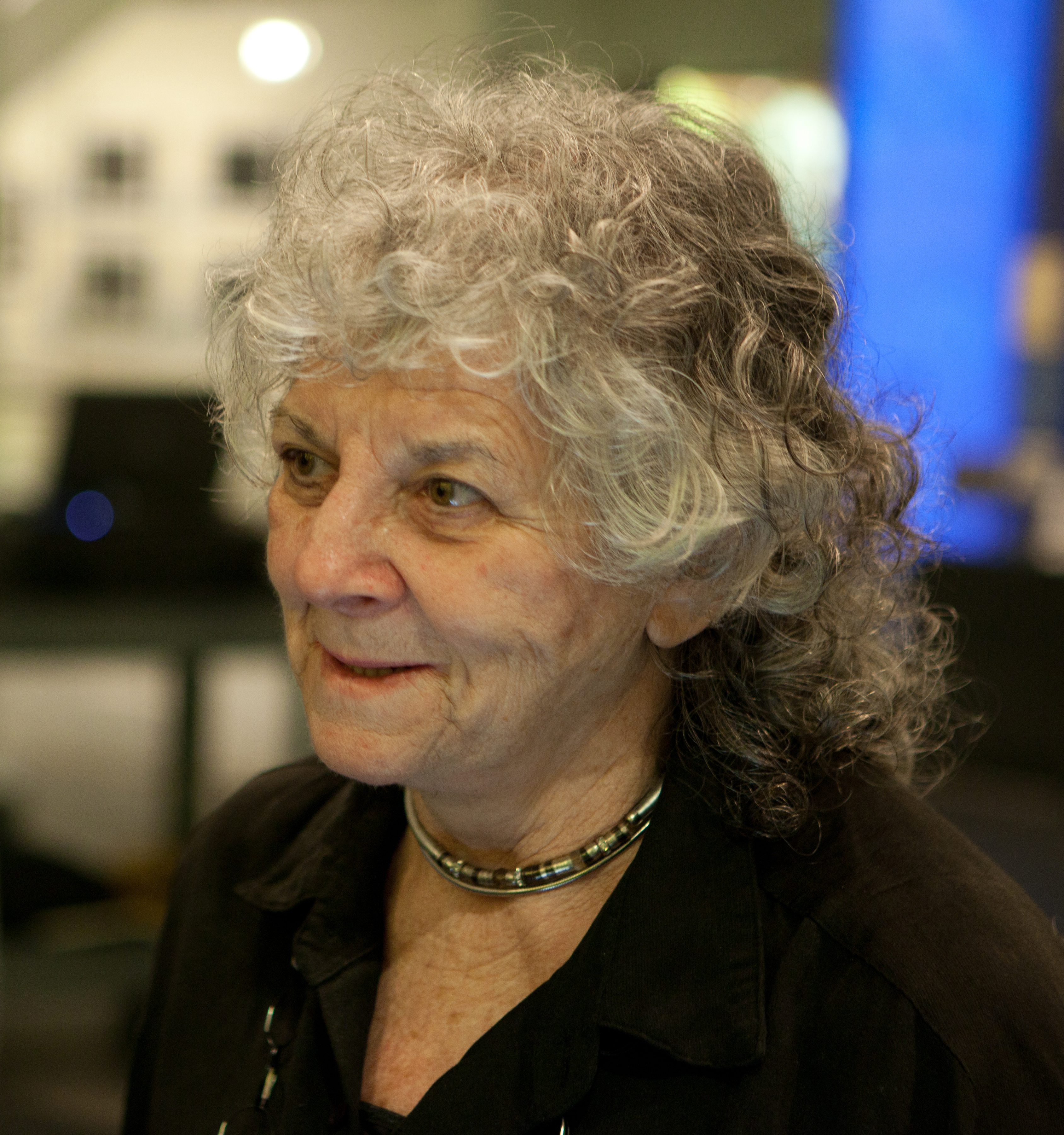 Photograph of Ada Yonath, Israeli chemist and 2009 Nobel Prize winner in Chemistry, taken at the Chemical Heritage Foundation, Philadelphia, PA, USA, January 16, 2013.